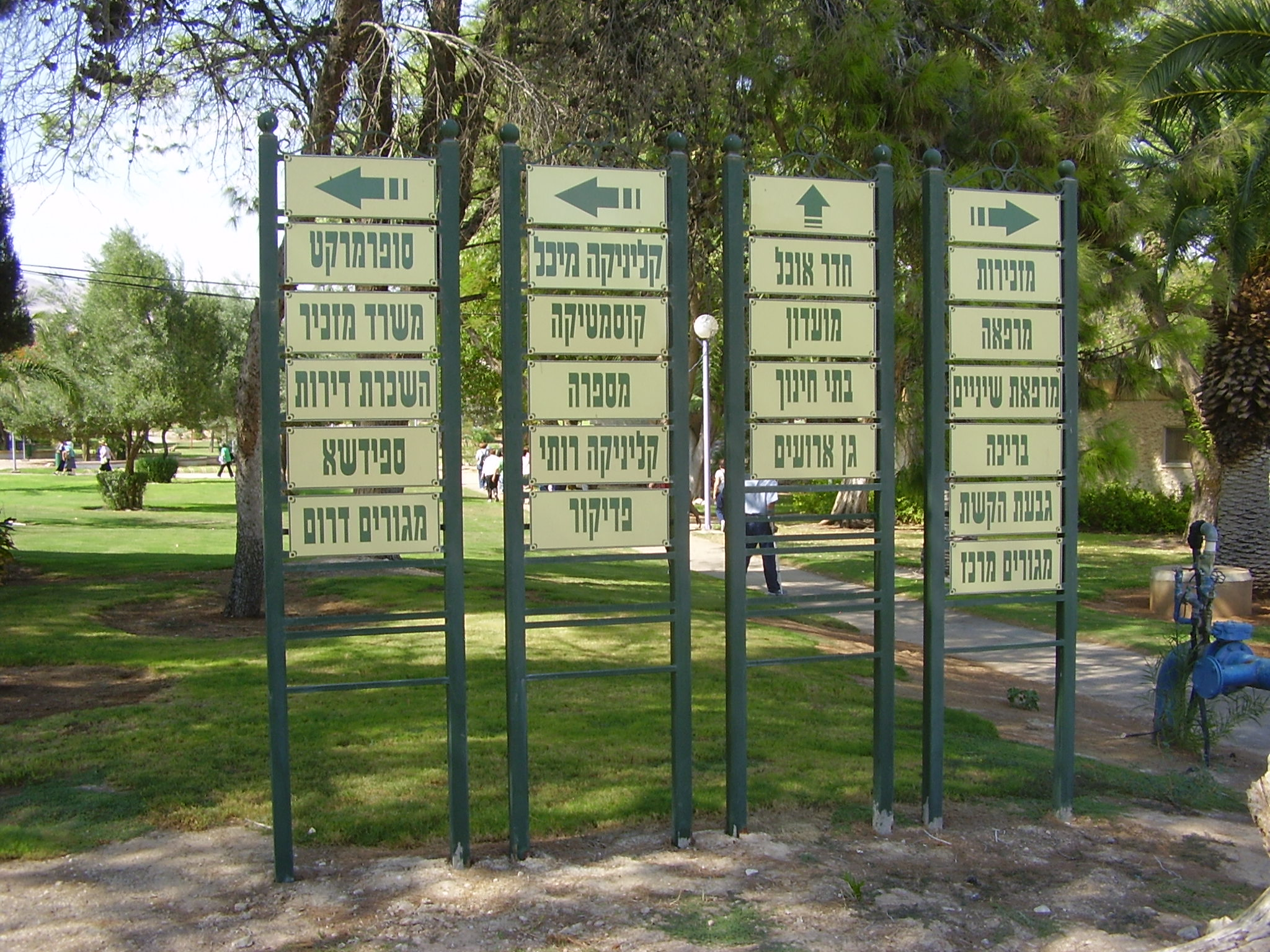 Kibbutz Gilgal